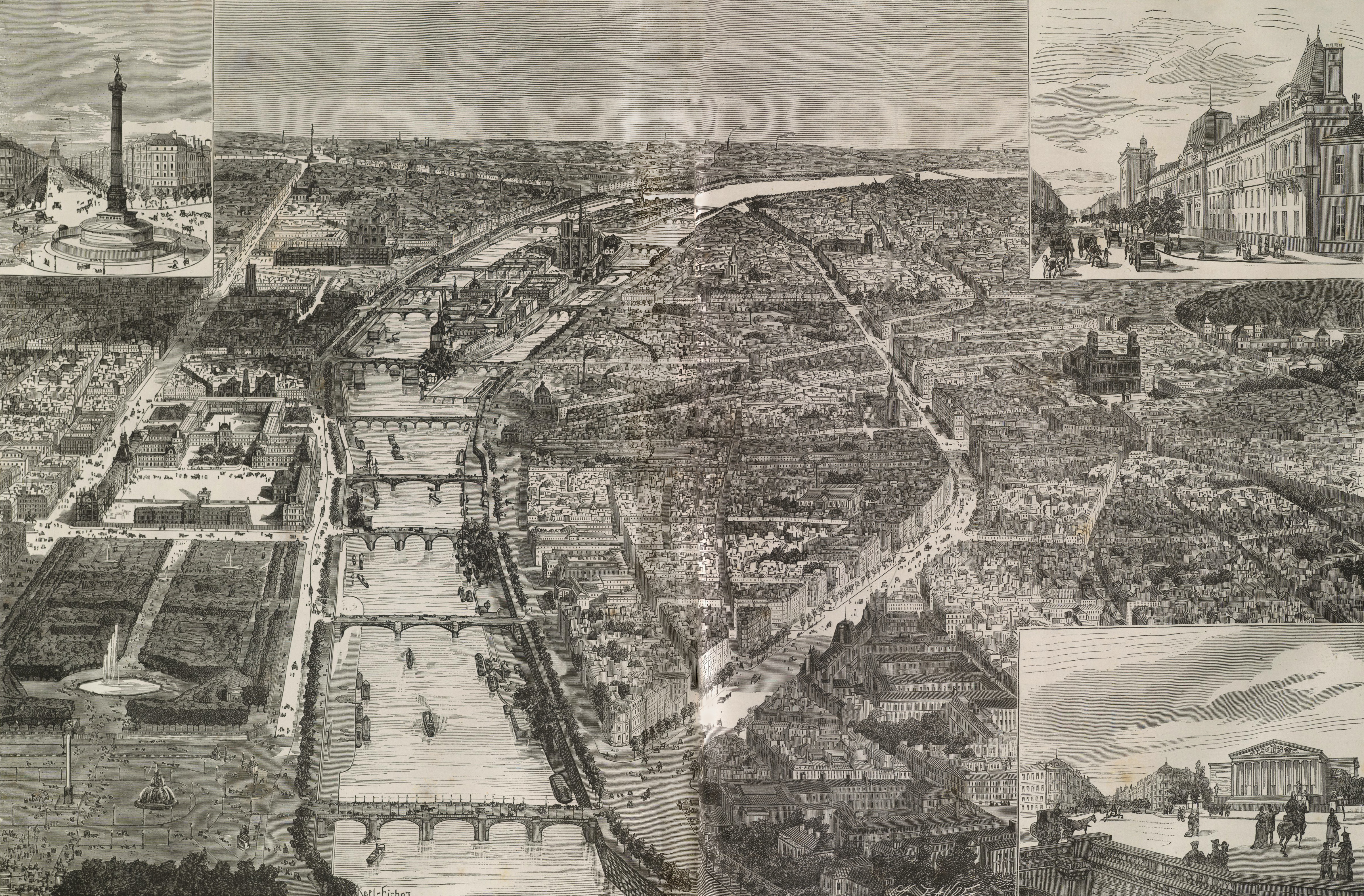 View of Paris in 1878, during the World Fair. The boulevard Saint-Germain (following a line symmetrical to the shores of the river Seine, on the right side of the picture) had been renovated and redesigned by Haussmann during the Second Empire, and was now completed. On the left side of the picture, one can see the Place de la Concorde, and behind it the Tuileries (which had burnt during the Paris Commune, but which were still standing) and the Louvre. The image on the top right-hand corner is a view of the boulevard Saint-Germain, while the one on the top left-hand corner represents the Place de la Bastille and the Colonne de Juillet. The image on the bottom right hand corner of the print represents the Palais Bourbon, which had been built for Louis XIV's illegitimate daughter. The pediment façade was a later addition by Napoleon. Today, this building is the seat of the National Assembly.